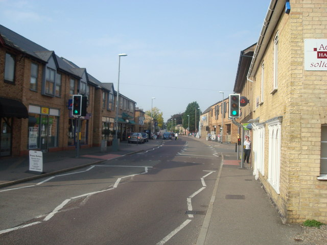 High Street, Sawston